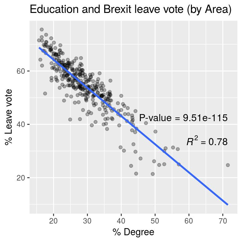 Education and Brexit leave vote by Area 2017